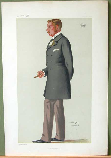 Statesmen No.306: Caricature of The Earl of Lonsdale. Caption reads: "Self-conquest"